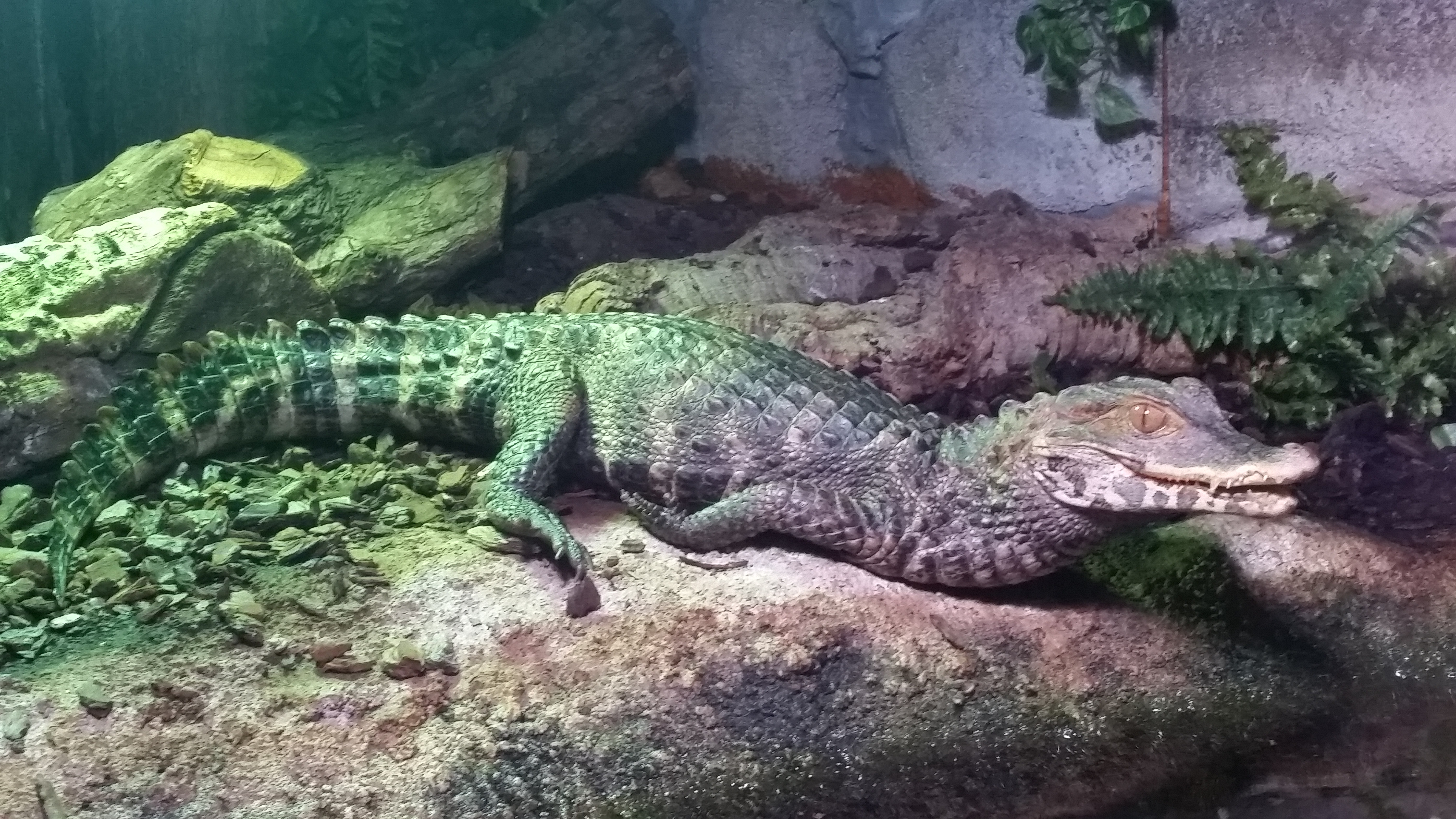 Cuvier's dwarf caiman (Paleosuchus palpebrosus) in Southend-on-Sea aquarium, England.